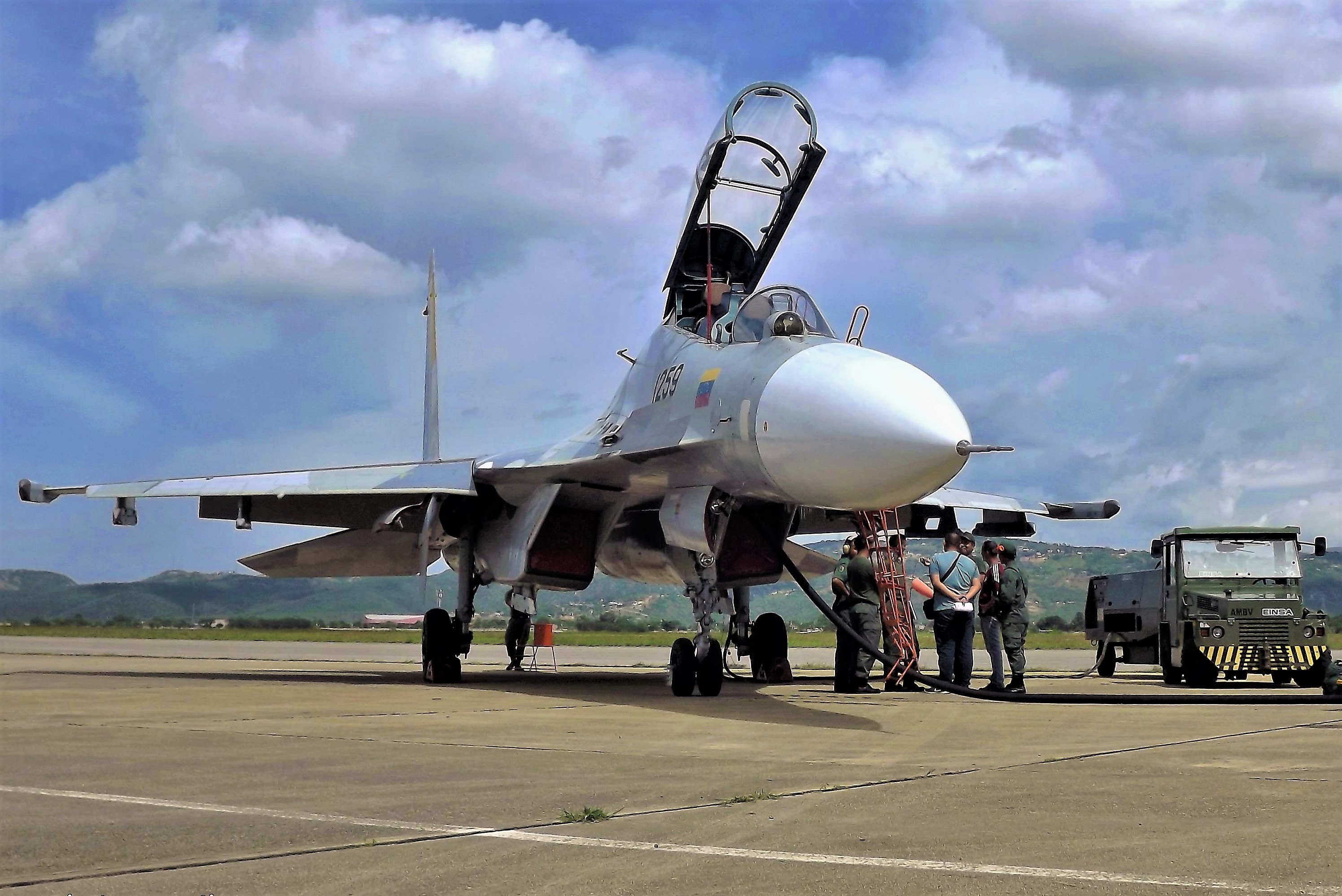 Front view of a Sukhoi Su-30MK2 of the Bolivarian Military Aviation (AMB) deployed during the Aeronautical Fair BALANDA 2016 in Barquisimeto - Venezuela